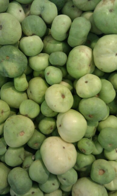 Tinda (Praecitrullus fistulosus), an Indian vegetable